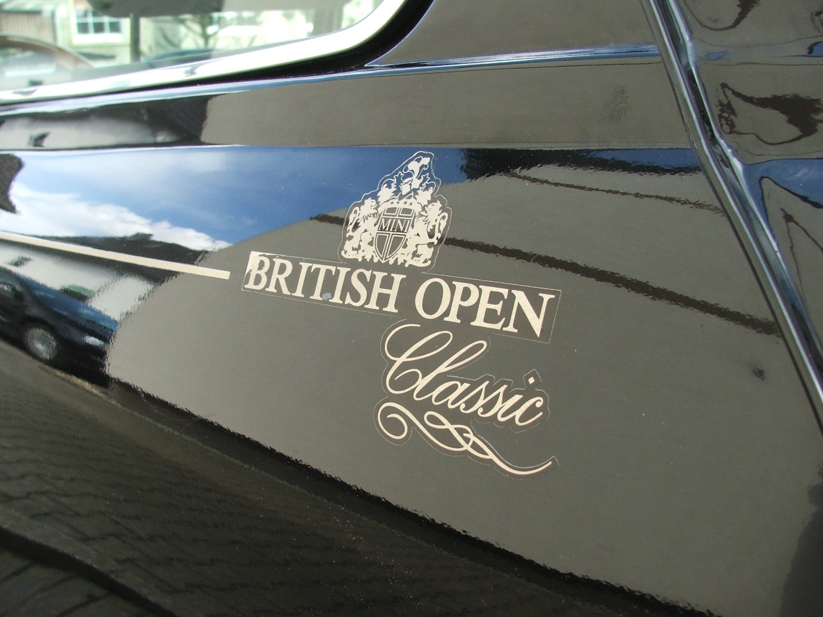 Minicooper British Open Edition Detail-shot